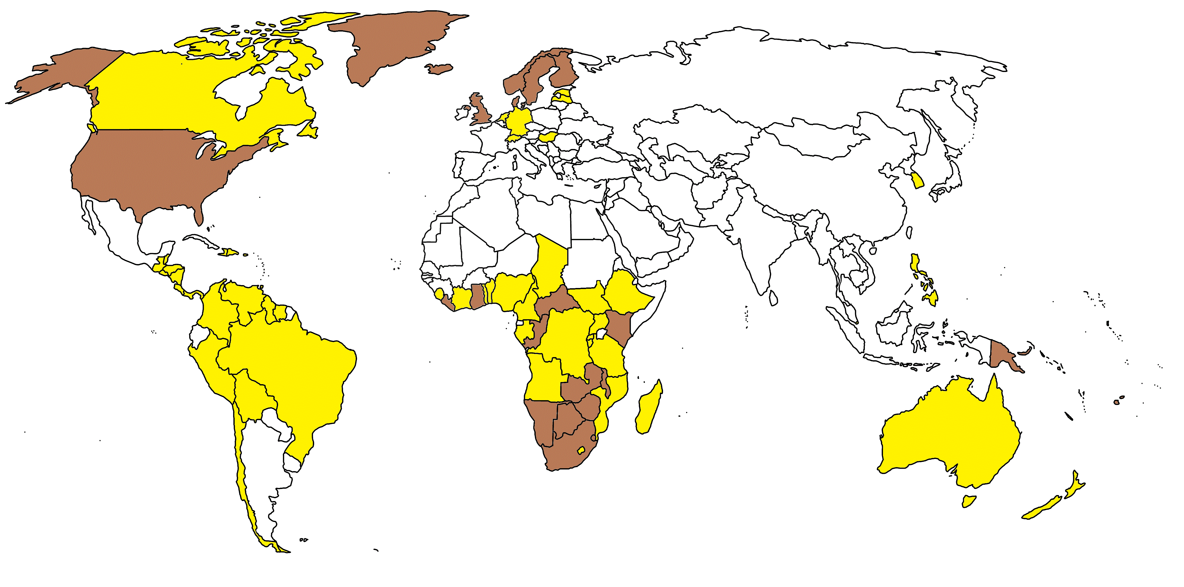 Protestants on the world Dominant religion (over 50%) A large religious minority (over 10%)